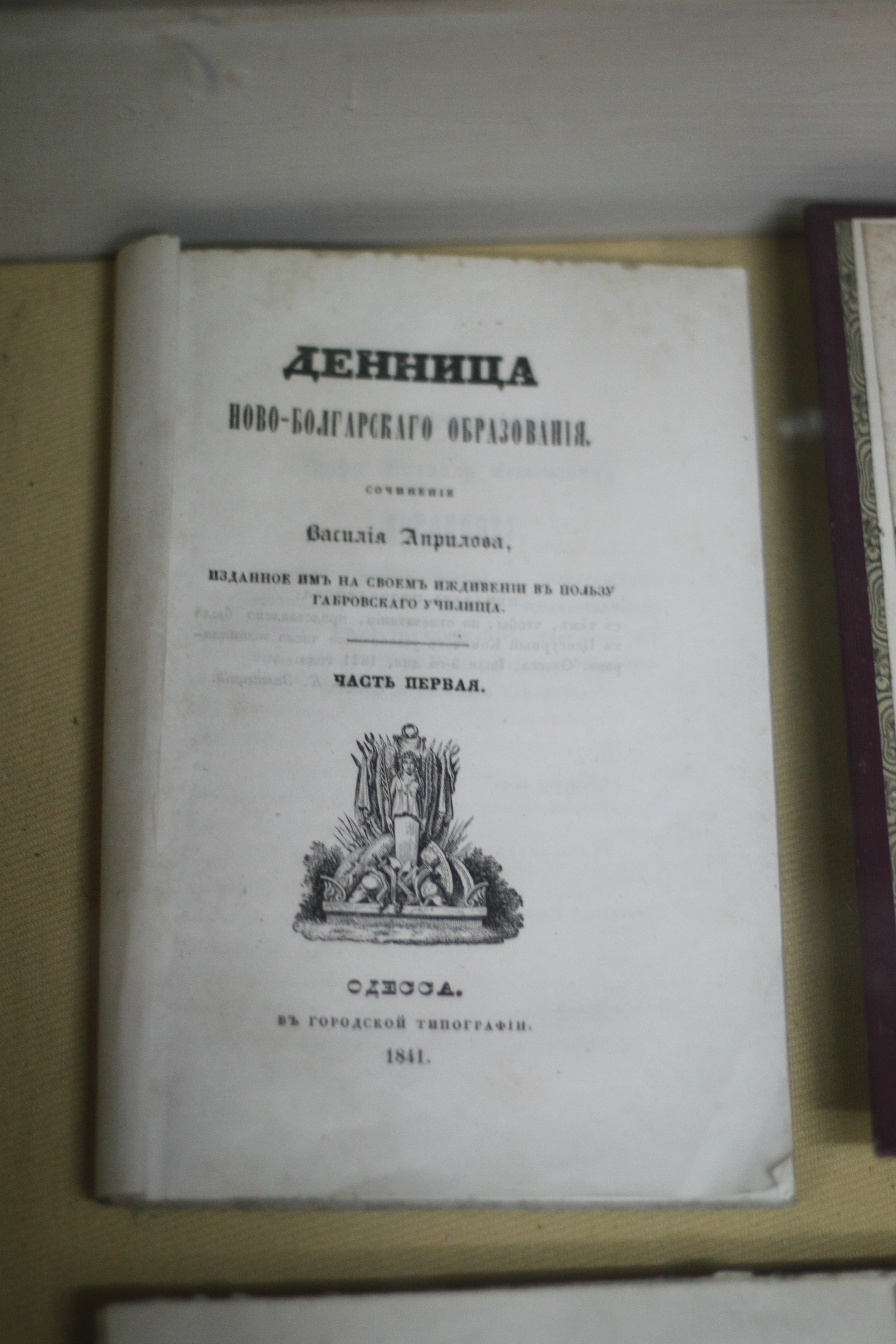 Haskovo Historic Museum, Haskovo, Bulgaria